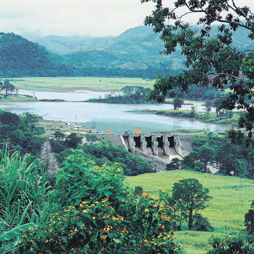 Angostura